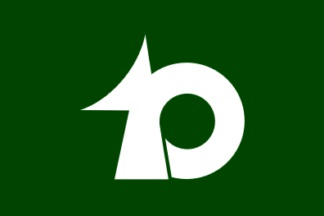 Flag of Watarai Mie